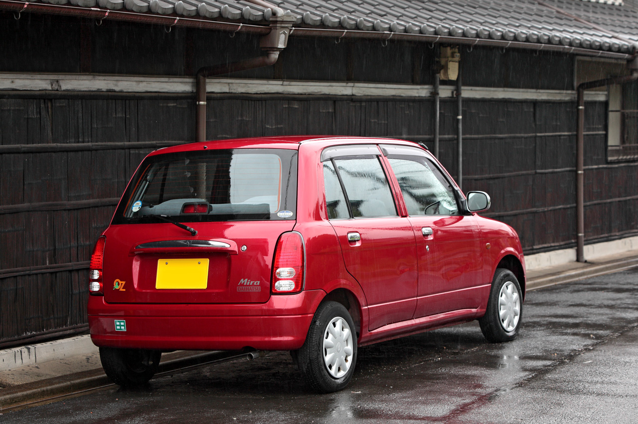 Daihatsu Mira OZ, a limited edition spotted in Aichi prefecture.